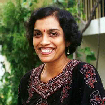 Maya Kamath, Female Cartoonist from Bengaluru. India (March 17 1951 - October 26 2001)